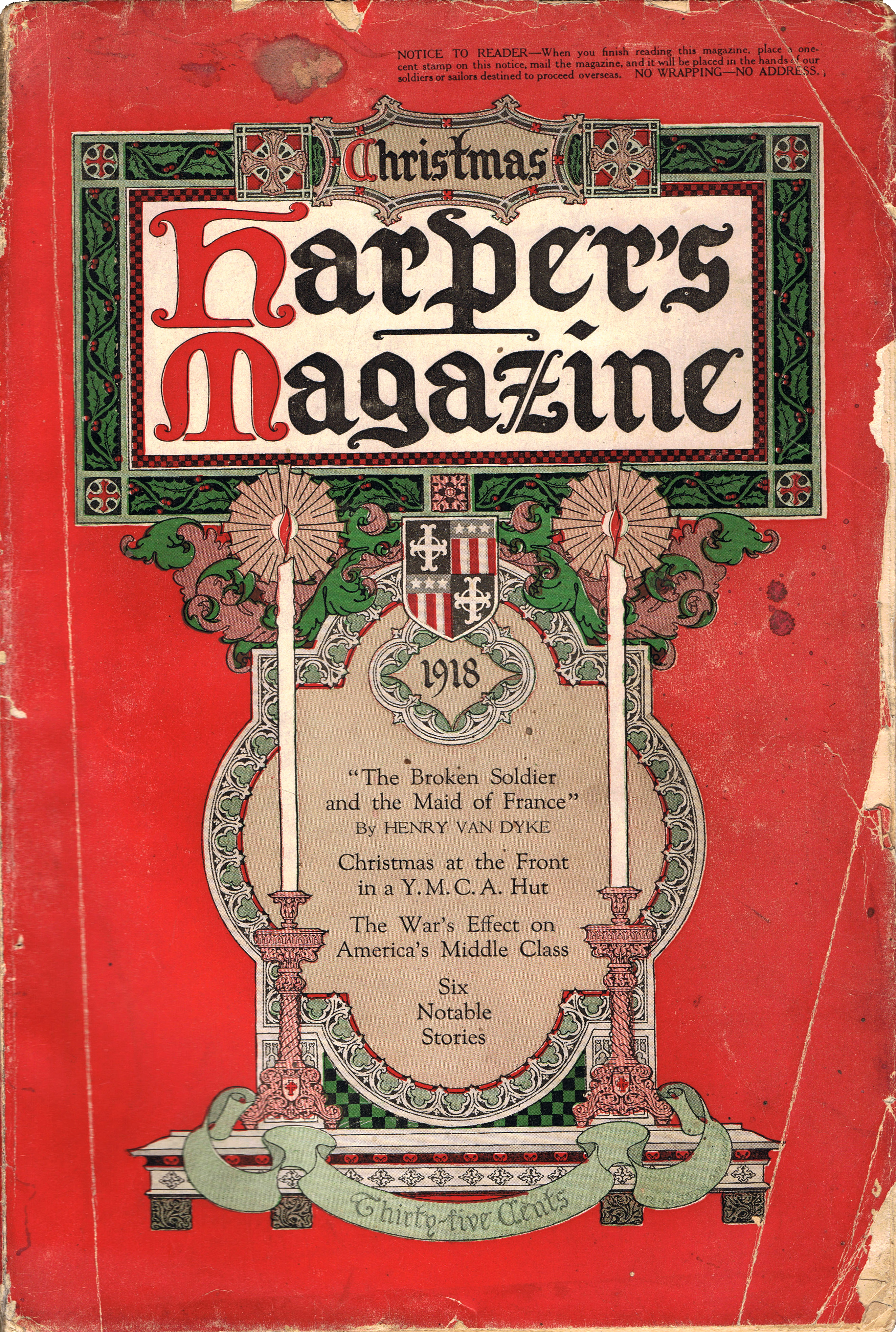 from a scan of my copy